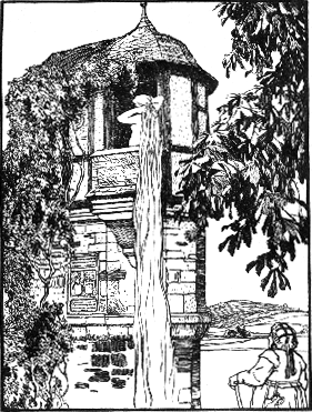 "Rapunzelturm" / "Rapunzel tower". Illustration for a book of "Grimm's Fairy Tales".